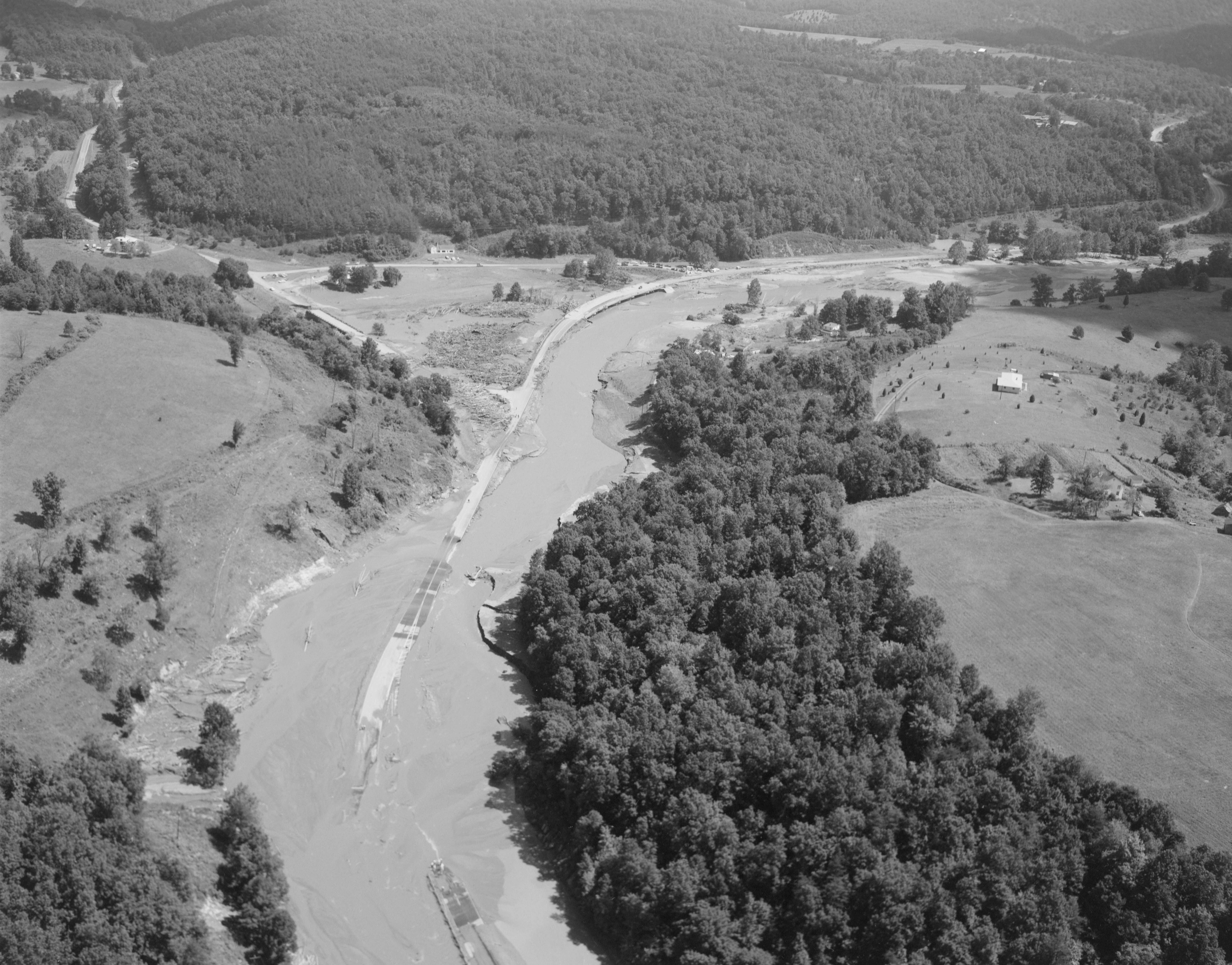 Rt. 29 and Rt. 6 intersect at Woods Mill in Nelson County. The roads are flooded and littered with debris from the overflown Rockfish River. No. 69-2143, Virginia Governor's Negative Collection, Library of Virginia.